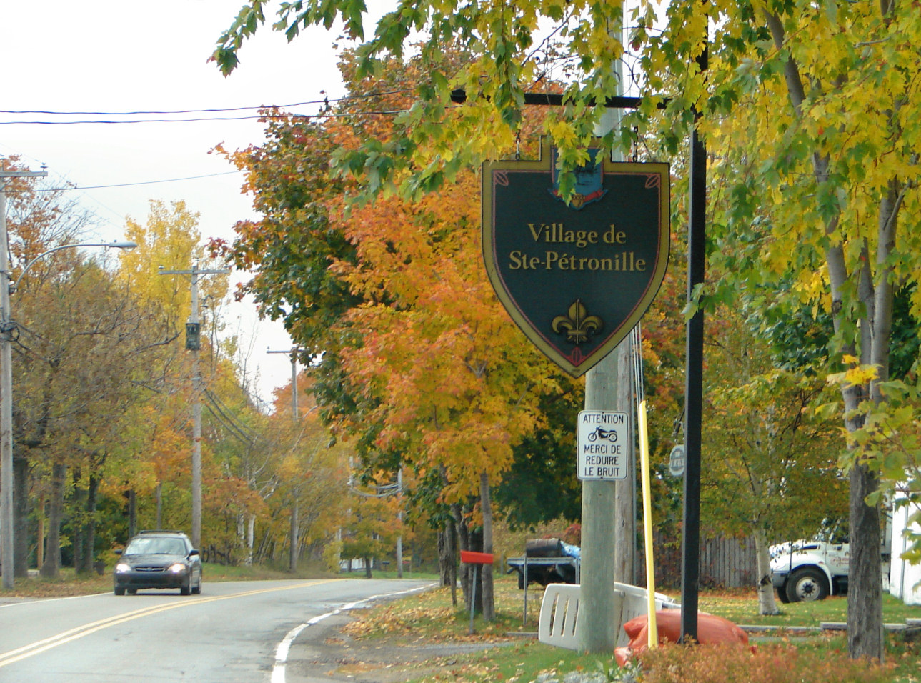 Sainte-Pétronille, Île d'Orléans, Quebec, Canada